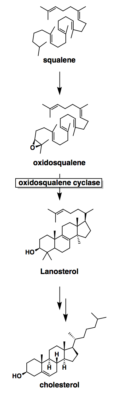 The figure shows how, in the cholesterol biosynthesis pathway, squalene is converted to oxidosqualene, which is then converted to lanosterol by oxidosqualene cyclase. Lanosterol is a precursor to cholesterol. This final conversion occurs in many steps.